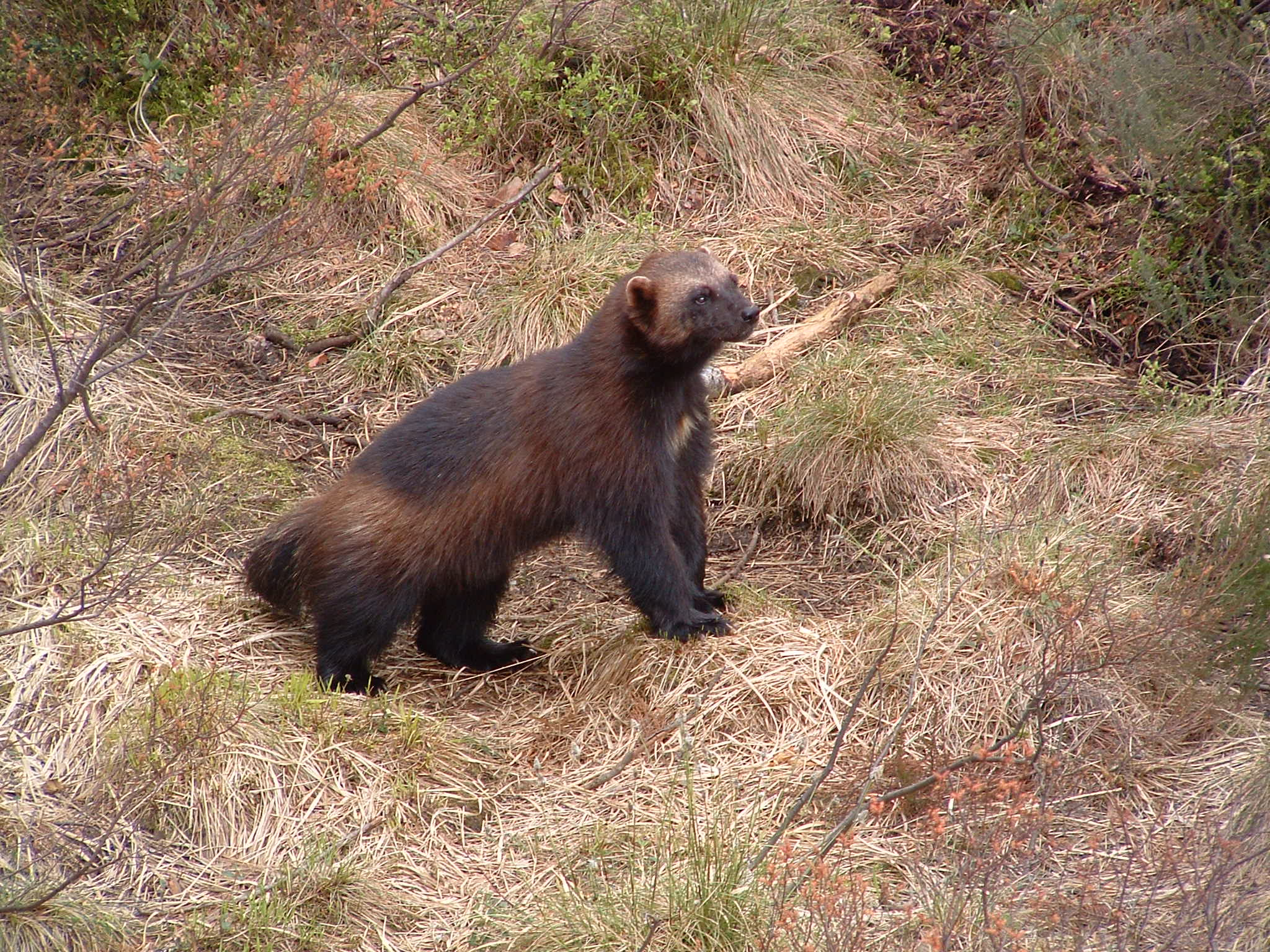 Impatiently waiting for his meal. Kristiansand Zoo, Norway